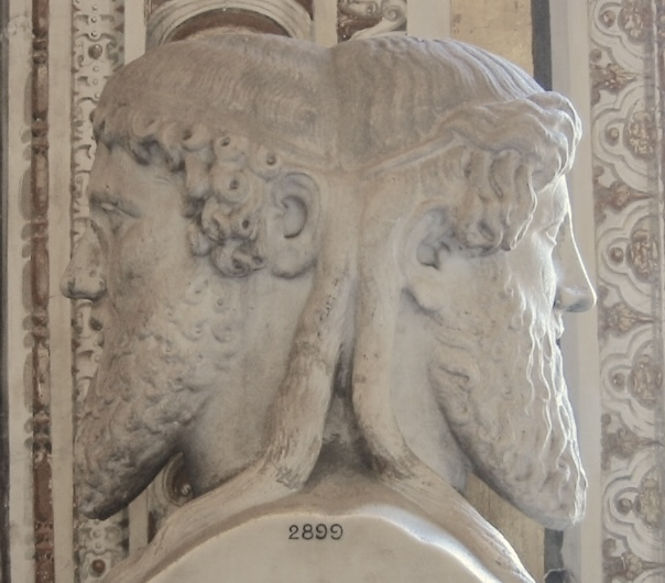 Bust of the god Janus, Vatican museum, Vatican City.